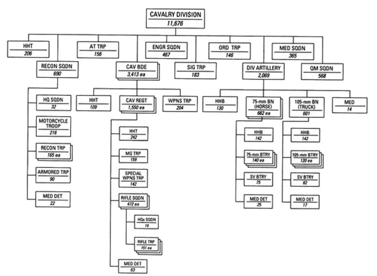 Chart showing the organzation of US Cavalry Divisions as of 1 November 1940